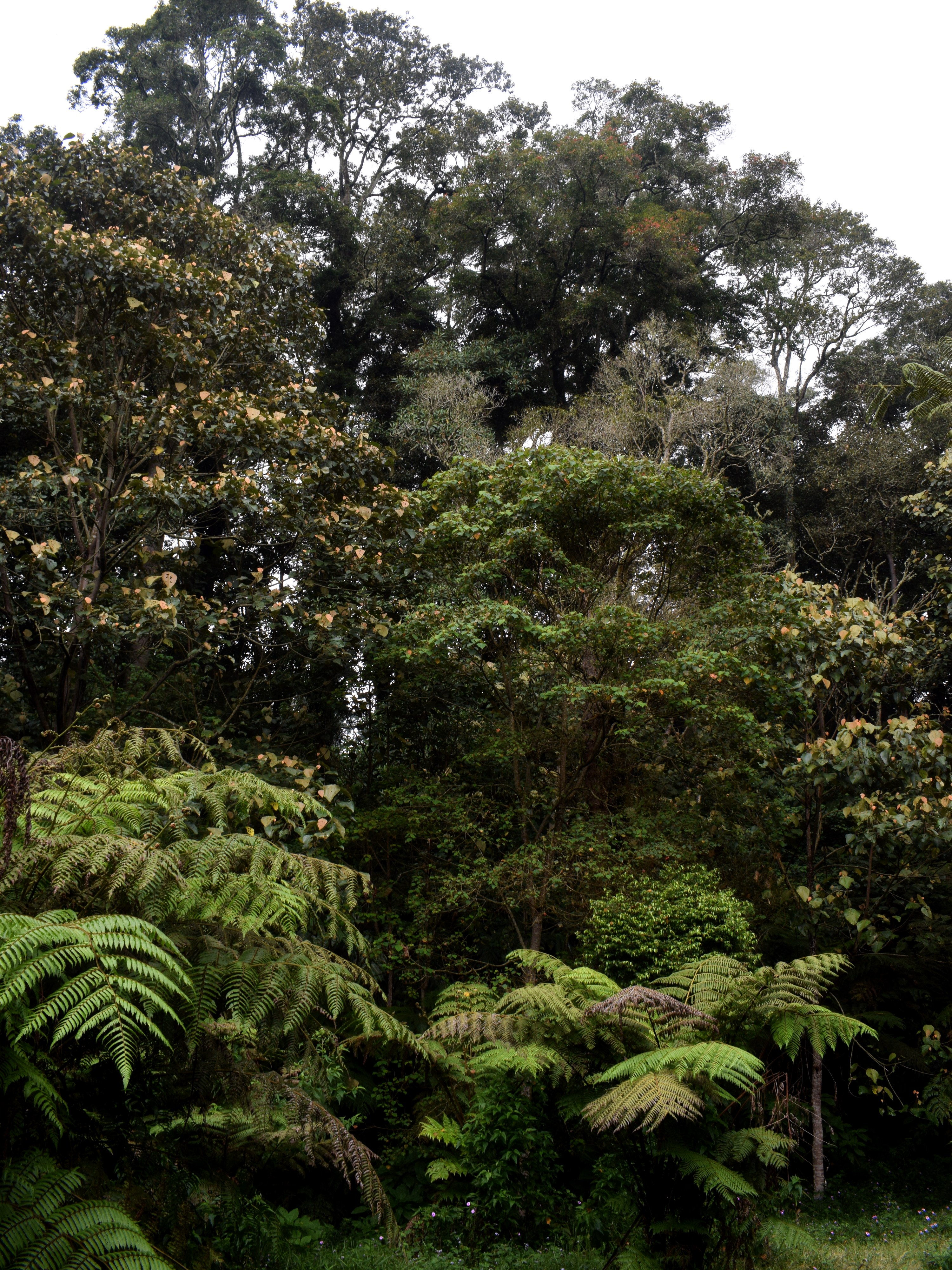 Macaranga rhizinoides (middle trees with reddish leaves) at it's habitat of montane forest. From Mt. Tangkubanprahu, Subang, West Java, Indonesia.